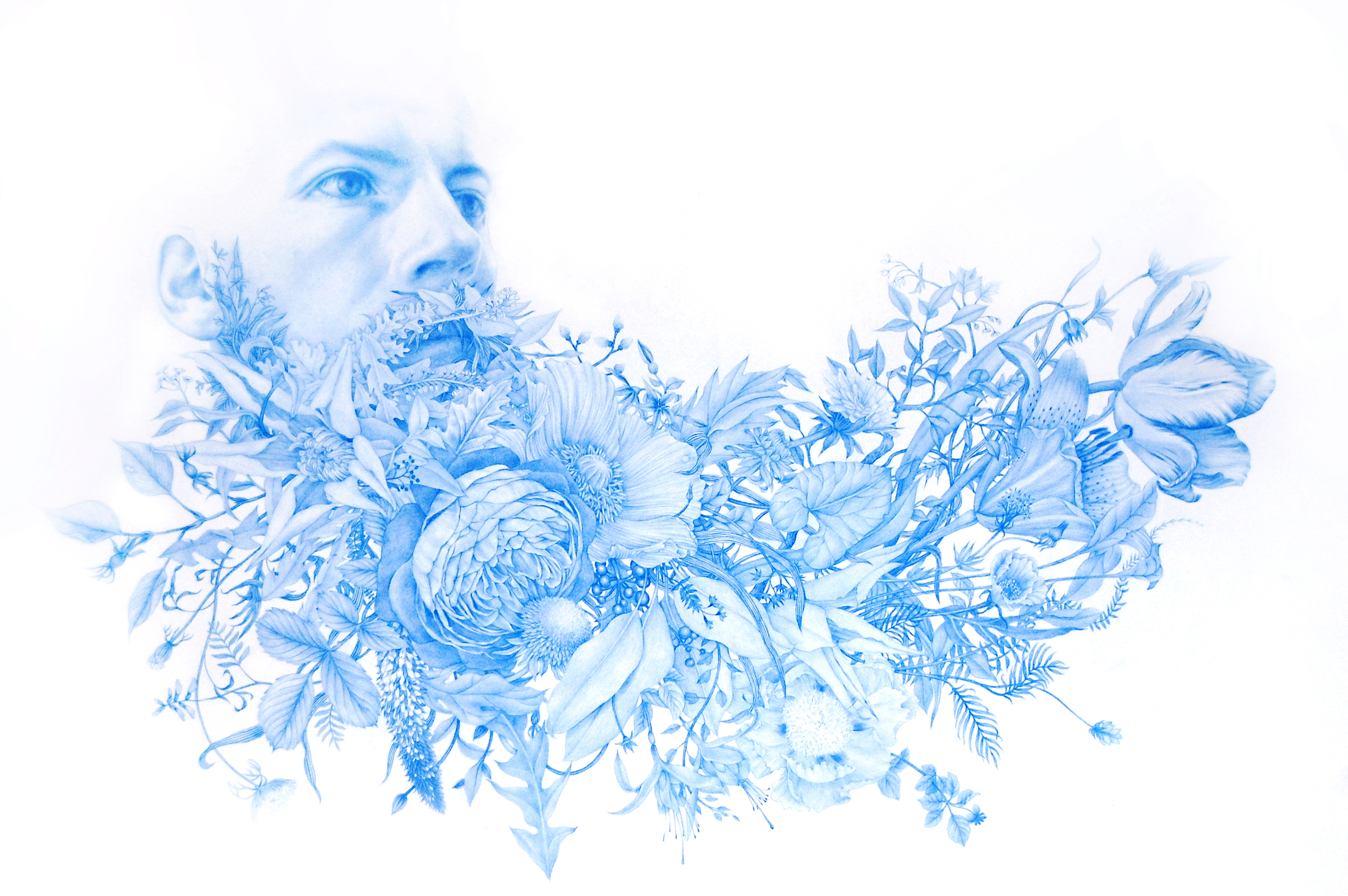 Photograph of "Wildman No. 13" by Zachari Logan, blue pencil on Mylar